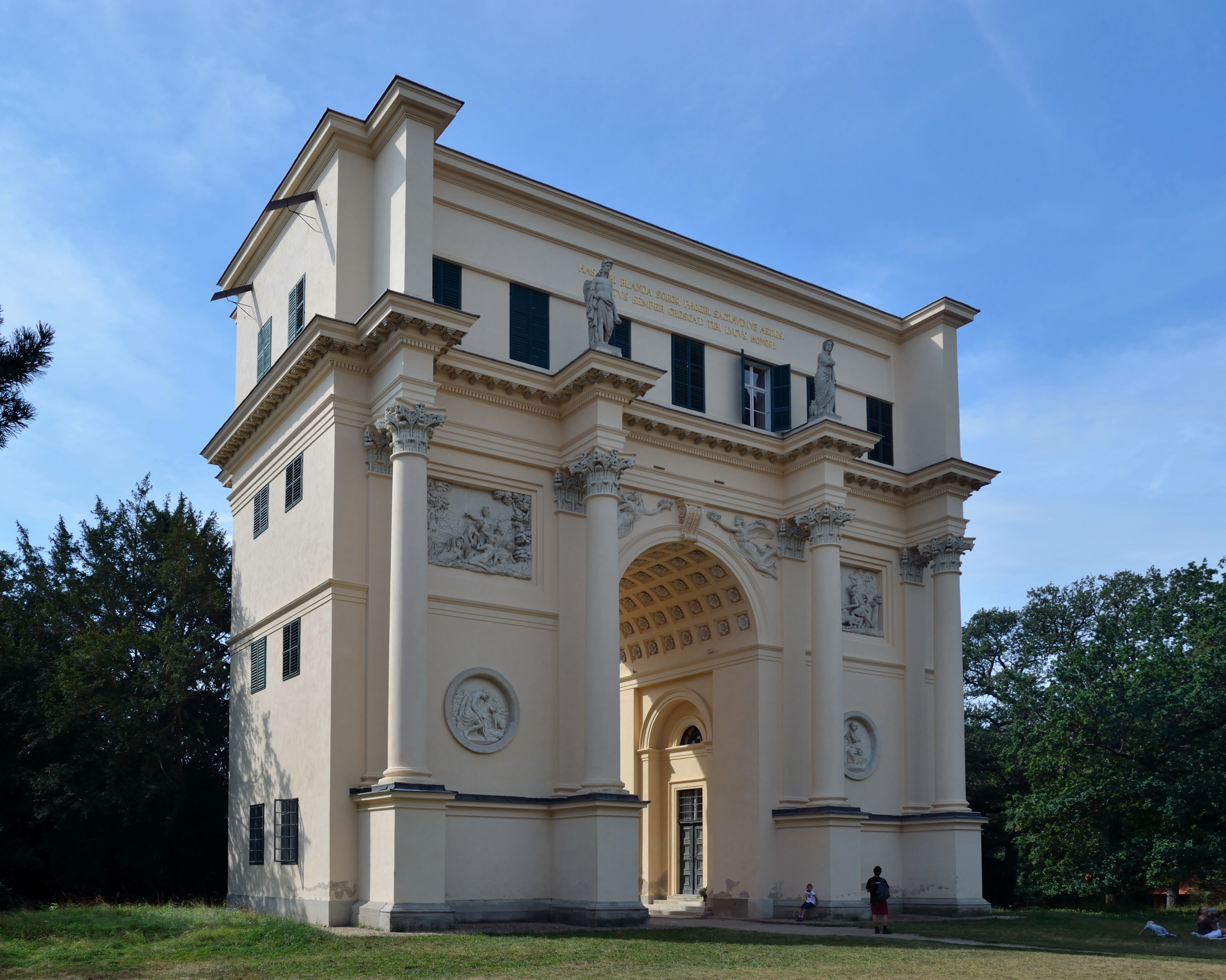 Diana temple Rendezvous in the Lednice–Valtice Cultural Landscape in the Czech Republic.